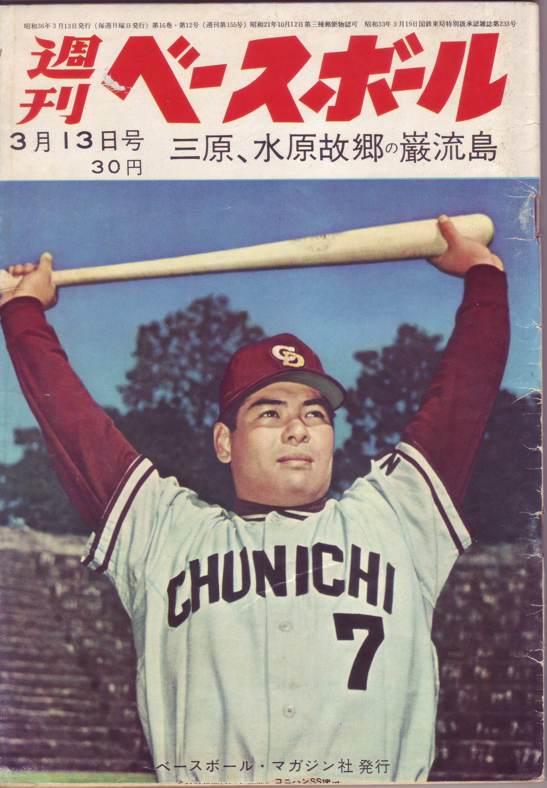 Tōru Mori from Magazine covers of "Weekly Baseball" March 13 1961 Isuue.